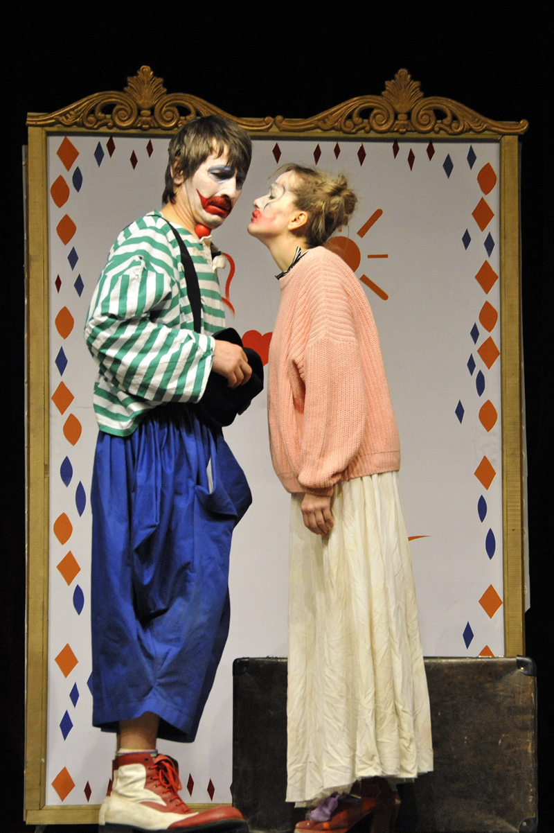 Shows of National Theater of Kosovo